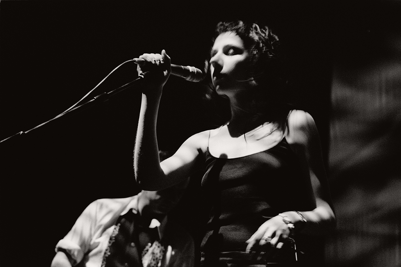 Singer/songwriter, artist Polly Jean Harvey aka PJ Harvey 1998 in Cologne/Germany